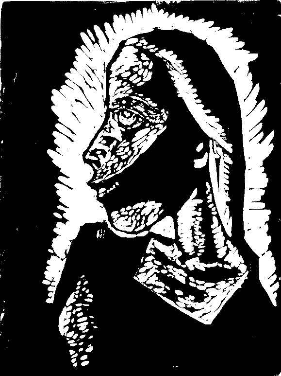 Joachim Karsch, side-face of a girl (Mädchenkopf im Profil), woodcut from 1921.